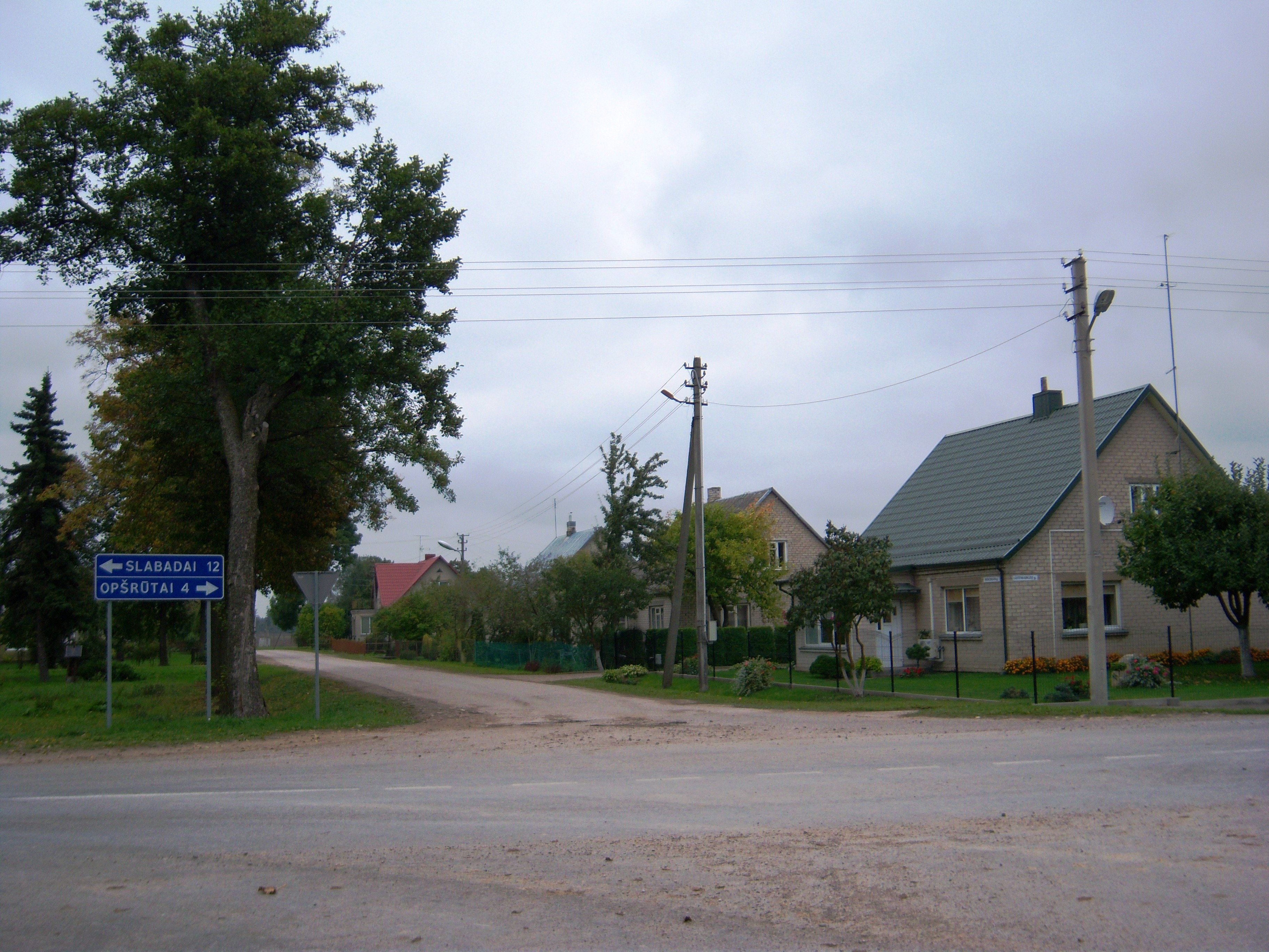 Alksnėnai, Vilkaviškis District, Lithuania